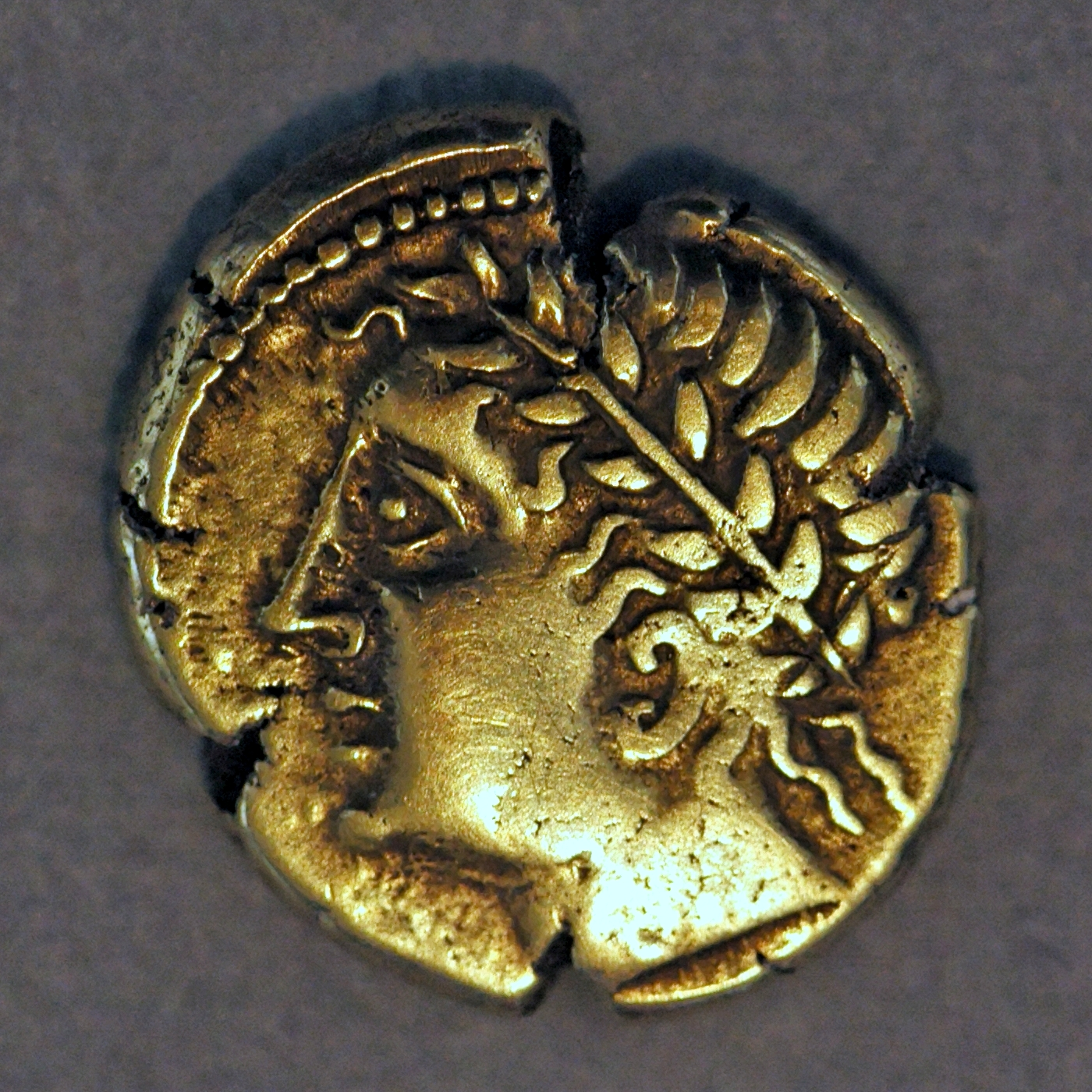 Stater of Vercingetorix (72 BC-46 BC), chieftain of the Arverni.